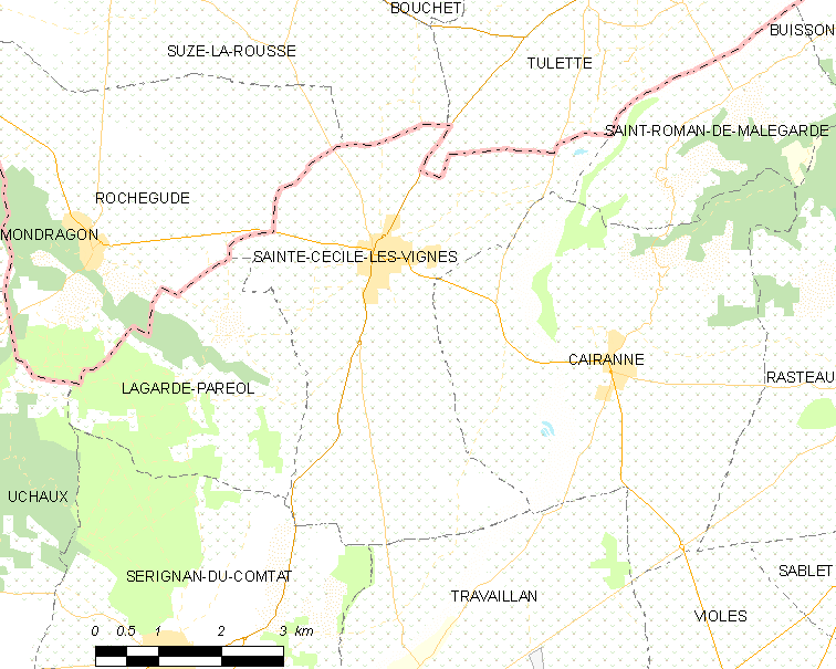 Map of French municipality Sainte-Cécile-les-Vignes